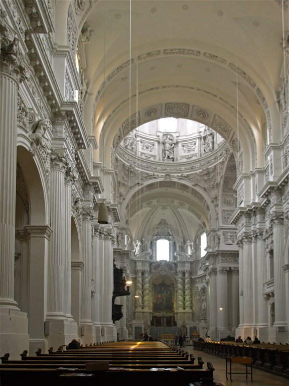 Munich (Germany), Church of the theatiner,interior, photo 2008